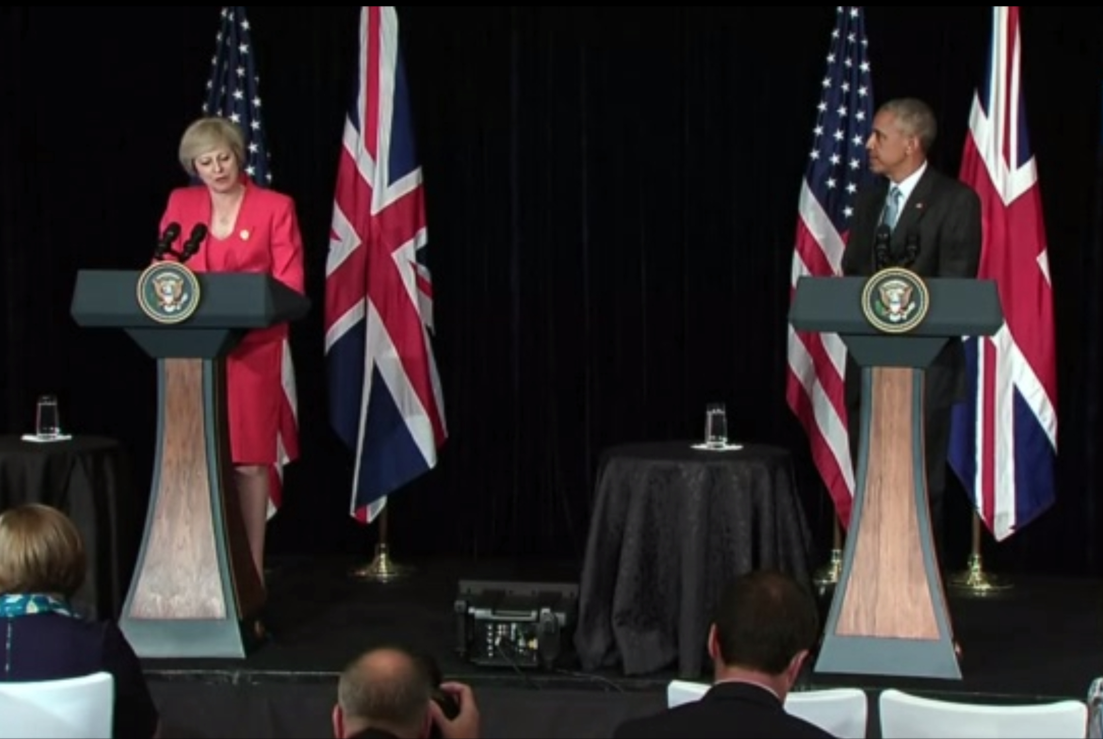 President Obama Delivers a Statement with Prime Minister Theresa May of the United Kingdom in Hangzhou, China